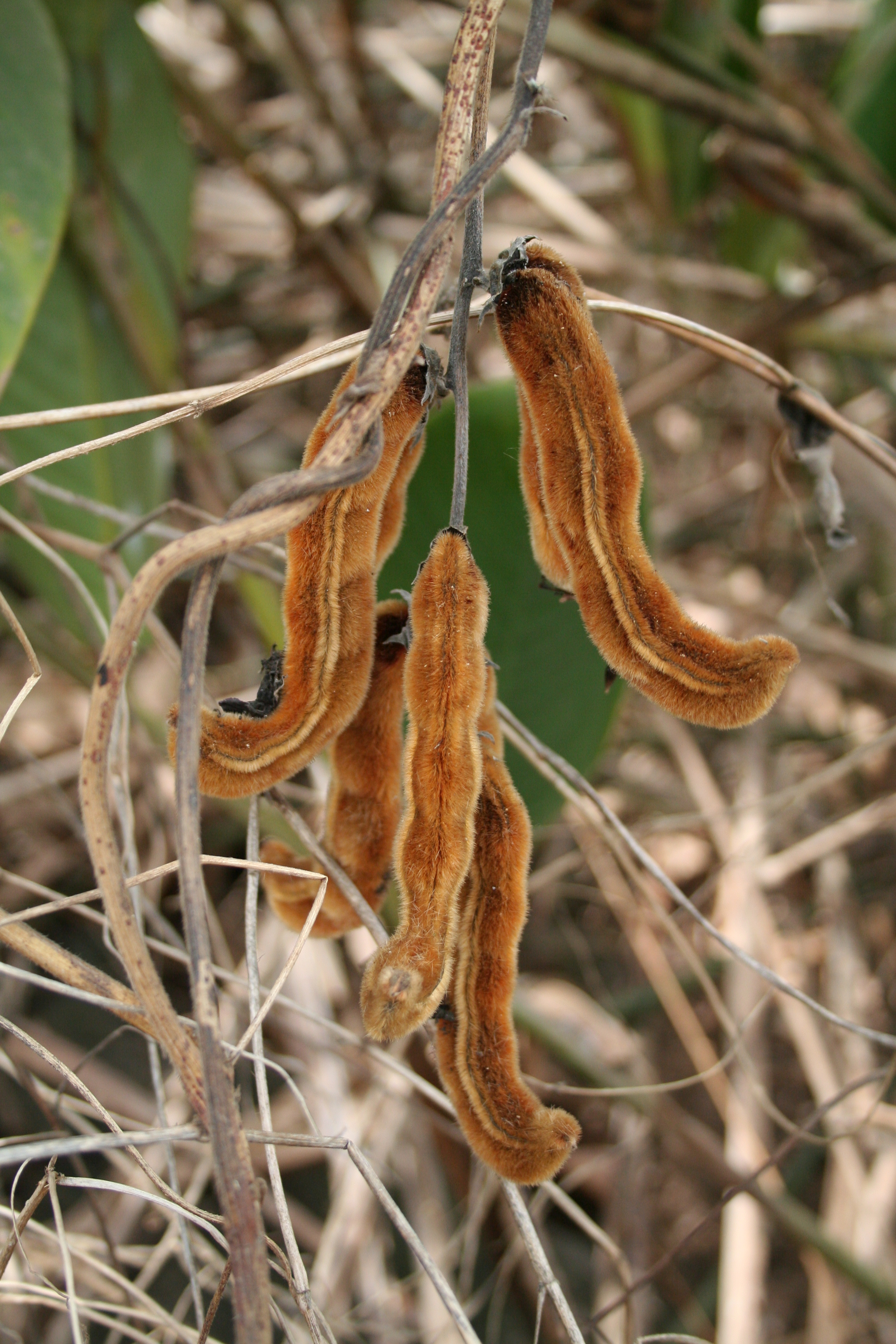 pods of Mucuna poggei on an inselberg near Yaoundé, Cameroon